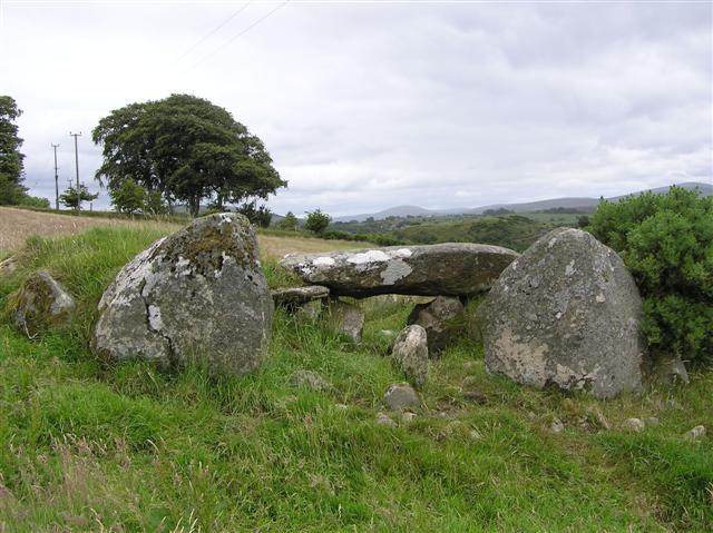 Loughash Tomb. Known on the OS maps as 'Giants Grave', this burial tomb dates from around 4500 years ago. It is called a wedge tomb because it narrows in size from front to back and also decreases in height. There are twenty-two wedge tombs in Co Tyrone and over 500 in Ireland as a whole. This site is built on a terrace on a hillside sloping down from the north with Lough Ash as backdrop to the south. The entrance facing west has a double portal arrangement leading to the burial chamber. Originally the whole gallery would have been roofed with capstones, but only one now remains. It is enclosed by a wedge-shaped cairn. Oliver Davies excavated here in 1938 and several artefacts were uncovered in the gallery including a mould for a palstave (a type of axe), a bronze blade and a small copper ring. Fragments from four Beaker pots and about five other vessels were found along with various flint flakes. There was some charcoal and cremated bone, the remains of perhaps three individuals, the main burial being in a pit towards the back of the burial gallery.